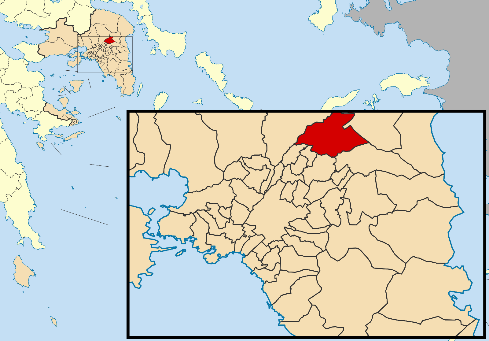 Locator map for Kifisia municipality in Greek region Attica (2011)